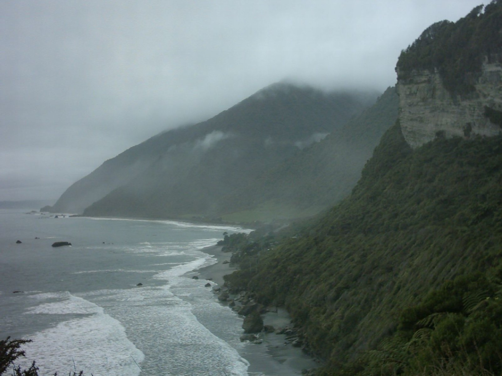 West Coast, New Zealand somewhere north of Greymouth.